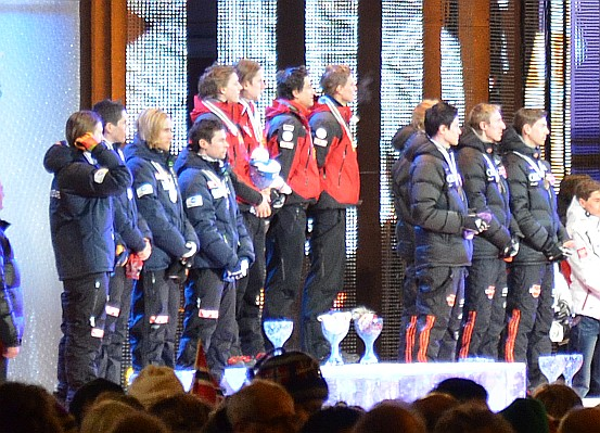 Podium of the skijumping Normal Hill Team at the FIS Nordic World Ski Championships 2011 in Oslo. 1: Austria 2: Norway, 3: Germany